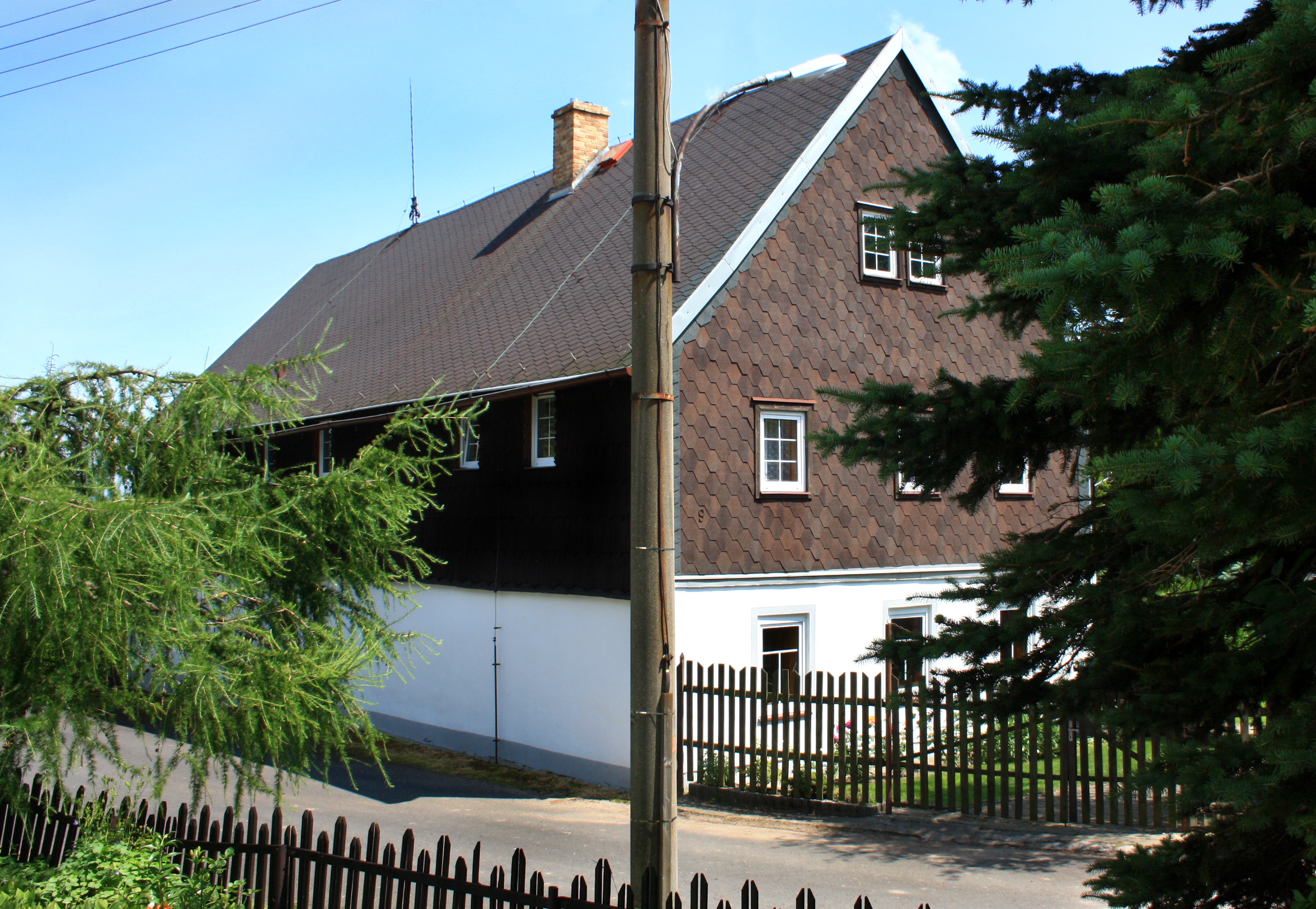 Protected homestead at Radenov, part of Blatno, Czech Republic